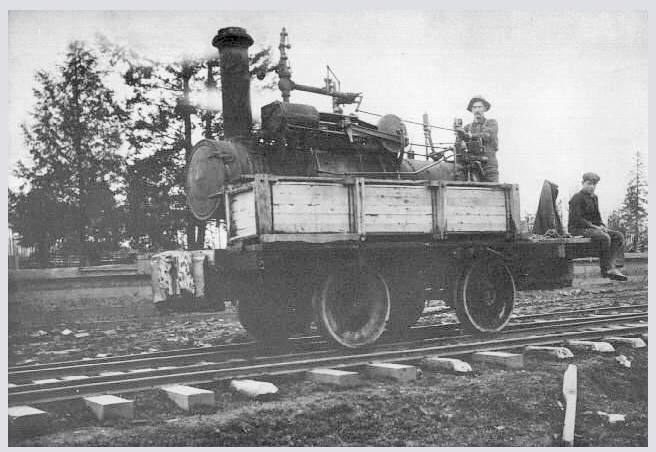 Pacific Brick Facing Co. at Newberg, Oregon in 1907. It had been adapted from a pre 1890 Russell steam traction engine. Later models had an all cast smokebox